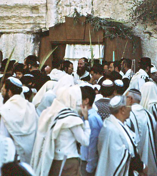 Jerusalem, Western Wall - Jewish holidays : Sukkot (Hoshana Raba)